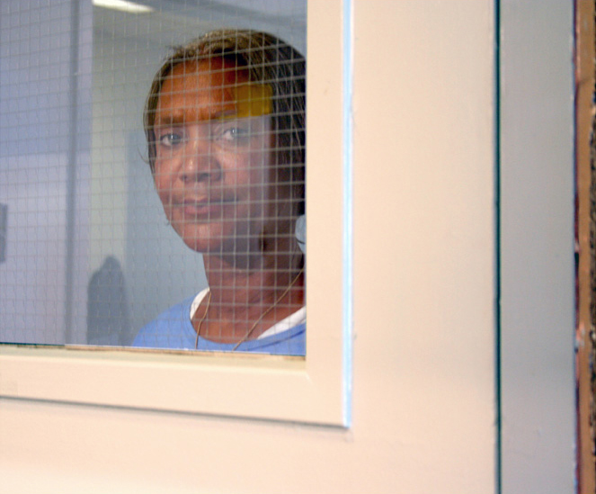 Deborah Peagler, the principle subject of the documentary film Crime After Crime, standing behind a window at the Central California Women's Facility, the largest prison for women in the United States. Attribute as: Photo by Yoav Potash, courtesy of the film Crime After Crime.